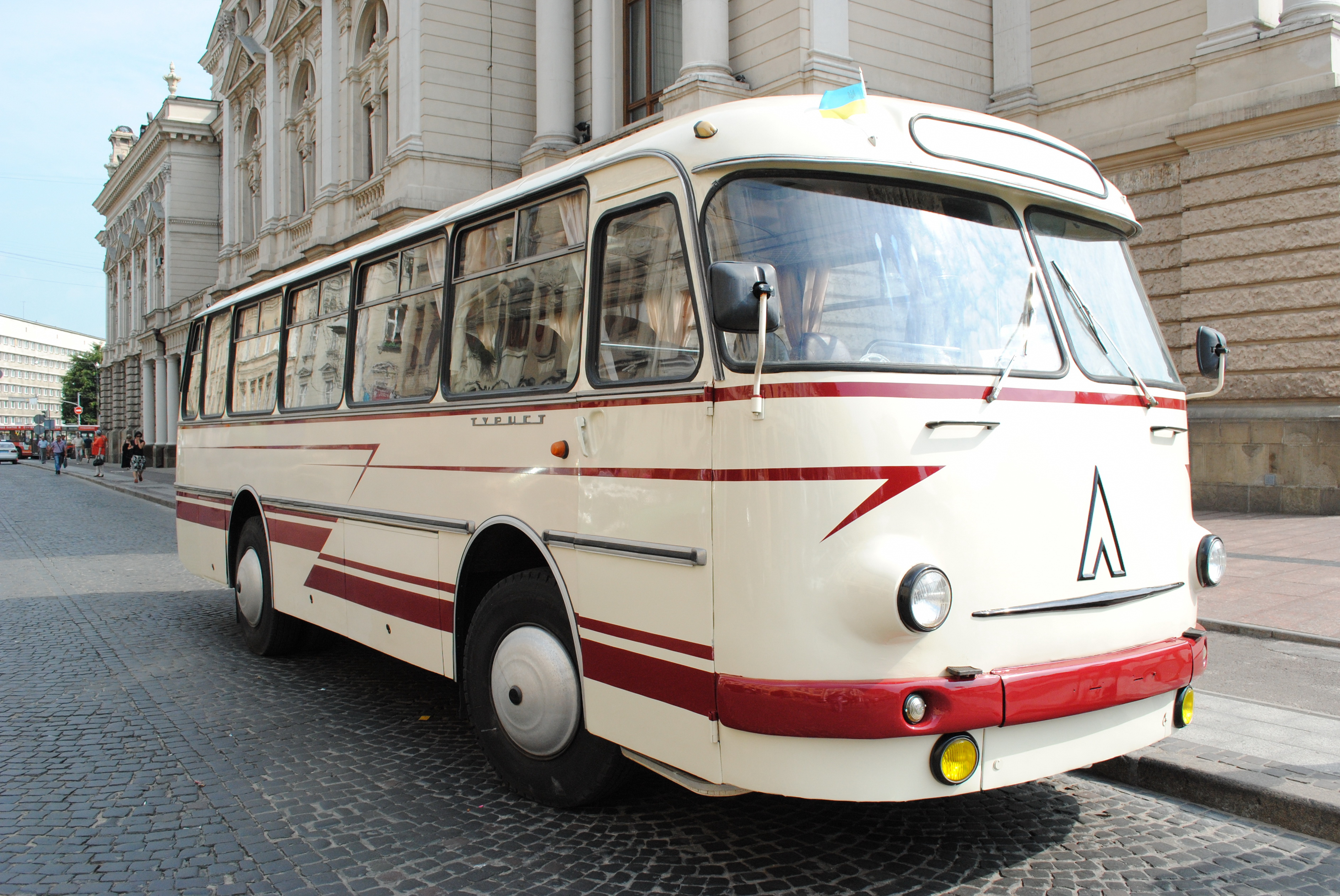 LAZ-697M bus on a Lviv Grand Prix Exgibition